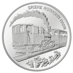 Swiss Commemorative Coin 2009 B CHF 20 obverse